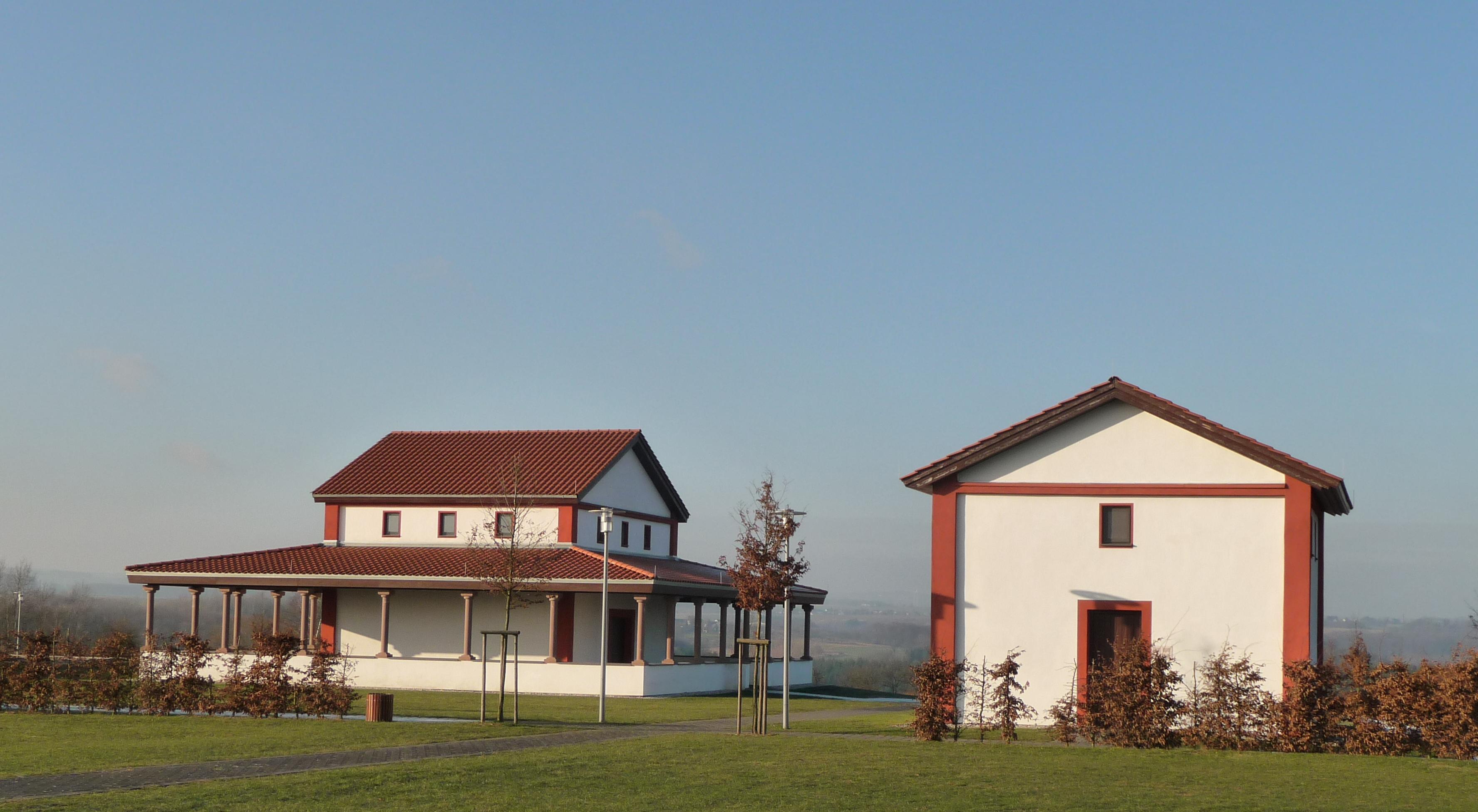 Reconstructed Gallo-Roman temple on the Martberg in the Eifel.